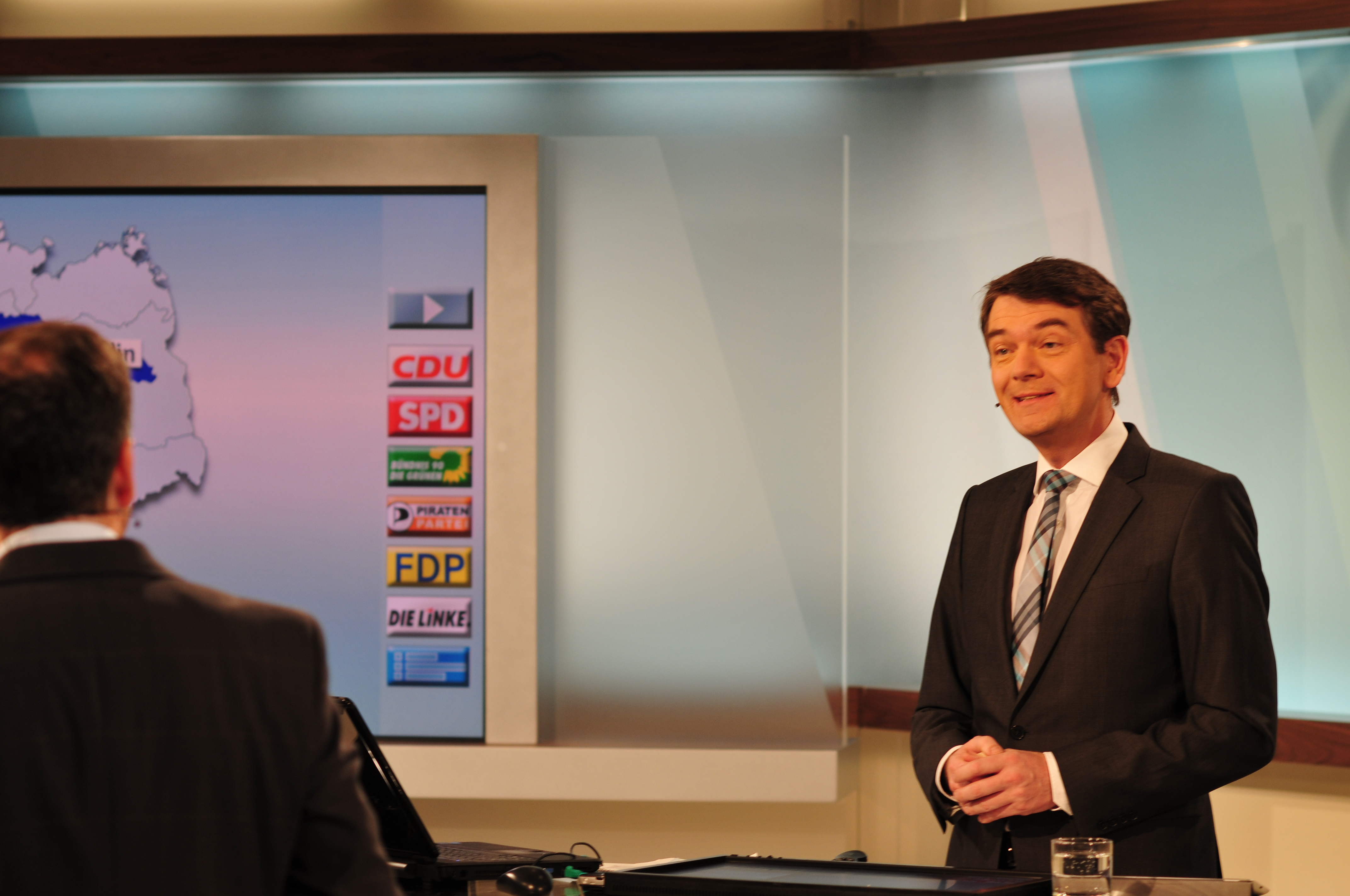 Wikipedia im Landtag – Niedersachsen 20. Januar 2013 in Hannover am WahlabendDieses Bild entstand während der Landtagswahl in Niedersachsen 2013 im Landtag Hannover. This work is free and may be used by anyone for any purpose. If you wish to use this content, you do not need to request permission as long as you follow any licensing requirements mentioned on this page.